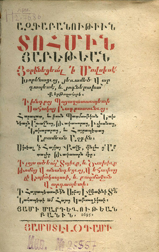 Azgabanut'eun tôhmin, Amsterdam, 1695.